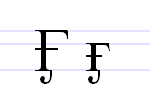 Cyrillic letter ge_with_stroke_and_hook.